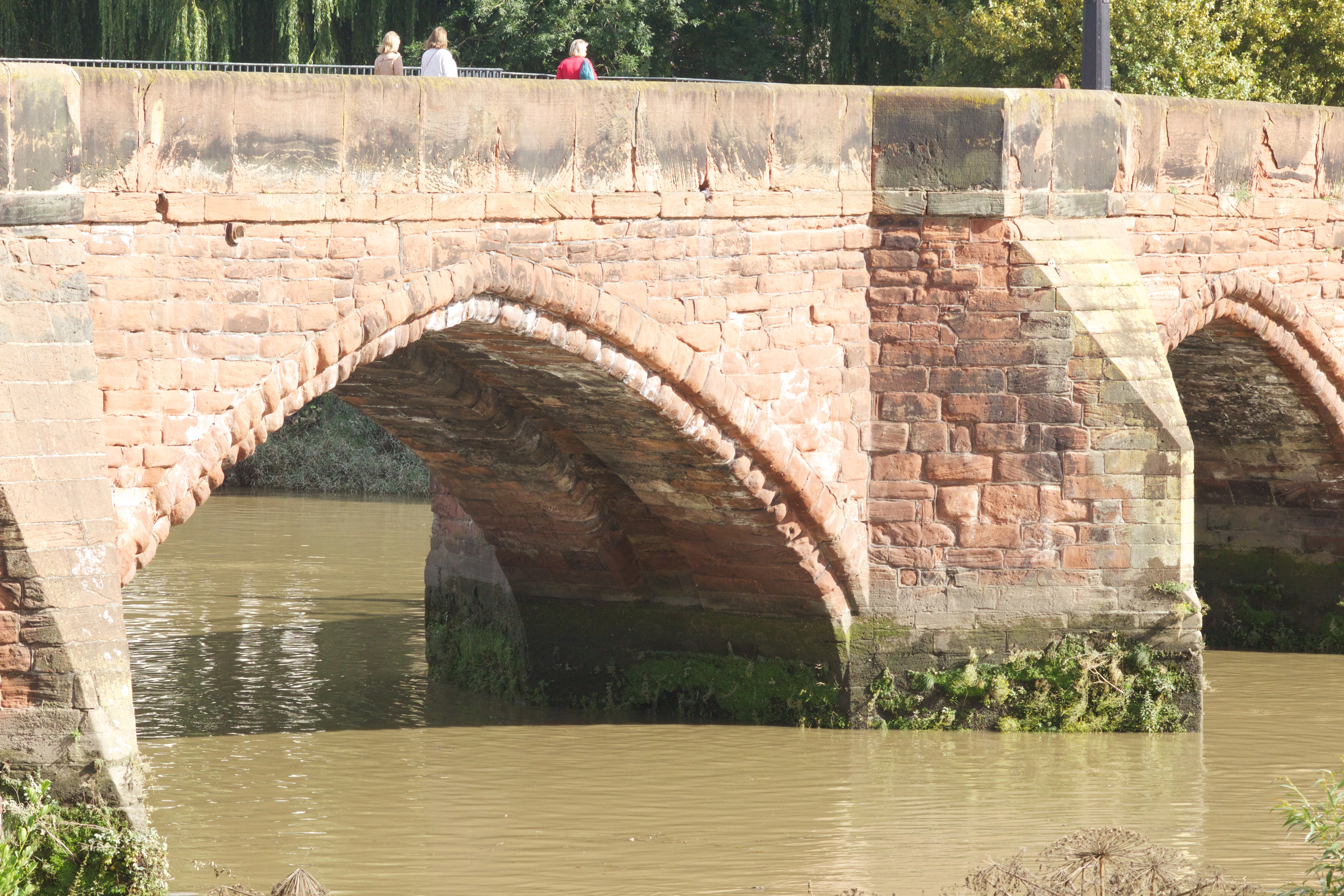 Old Dee Bridge